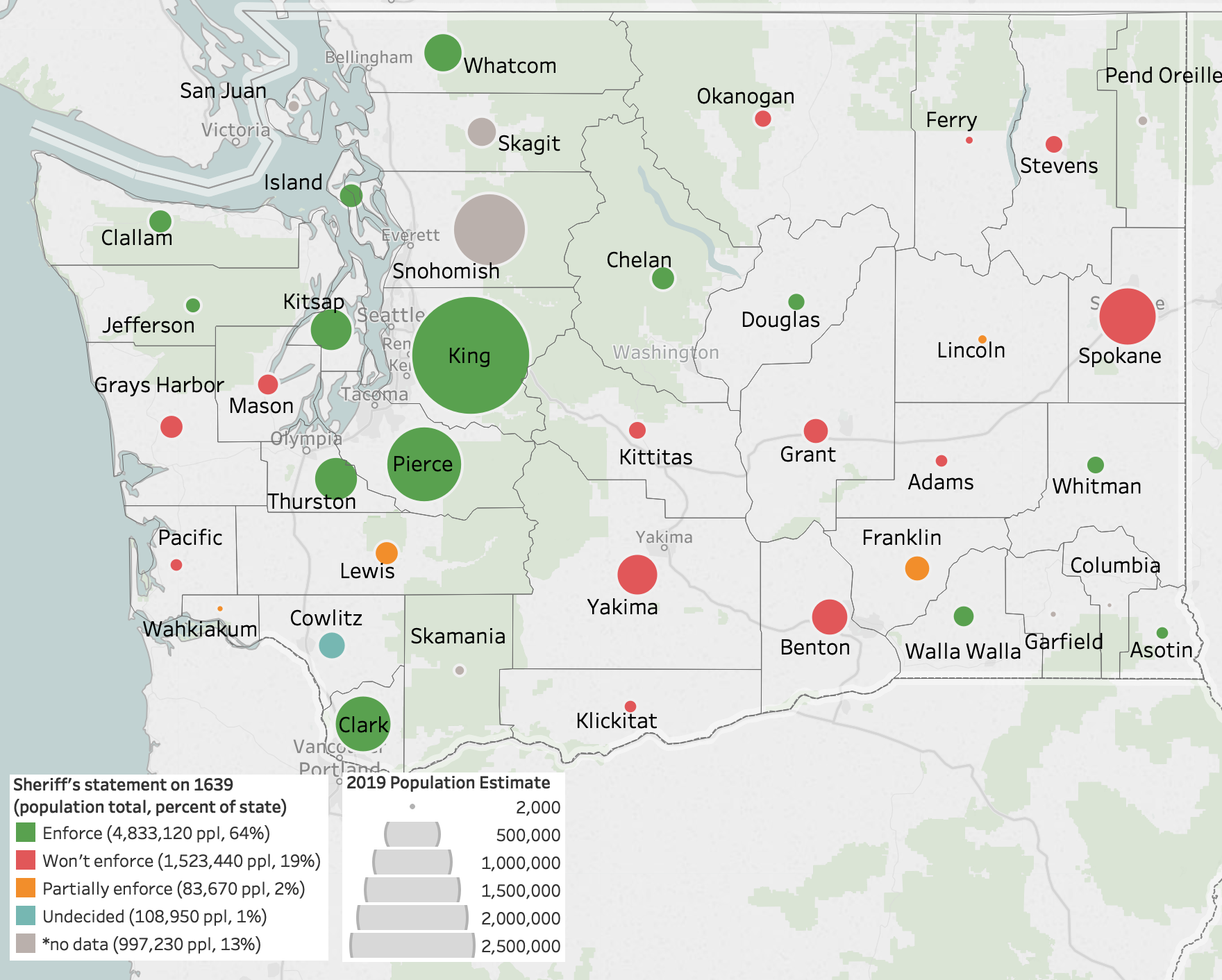 Announced position of county sheriffs on Washington Initiative 1639 showing population of county by size, and color indicating whether they will enforce the law, not enforce it, partially enforce, are undecided, or no data. Source: April 1 official population estimates[1], Washington State Office of Financial Management, April 1, 2019